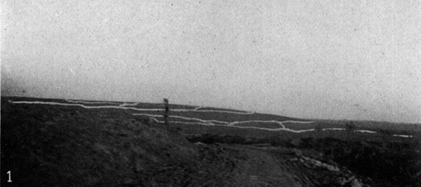 World War I in Reims-Verdon sector, France. Original caption: “"Kelly's Corner" or "Strafen's Bend," on the Esnes road. Mort Homme (Dead Man's Hill) and the first line German trenches are visible in the distance. A volley of shells can be seen exploding in the field to the right. Edward Kelly was killed just a few yards from here in August, 1916.”